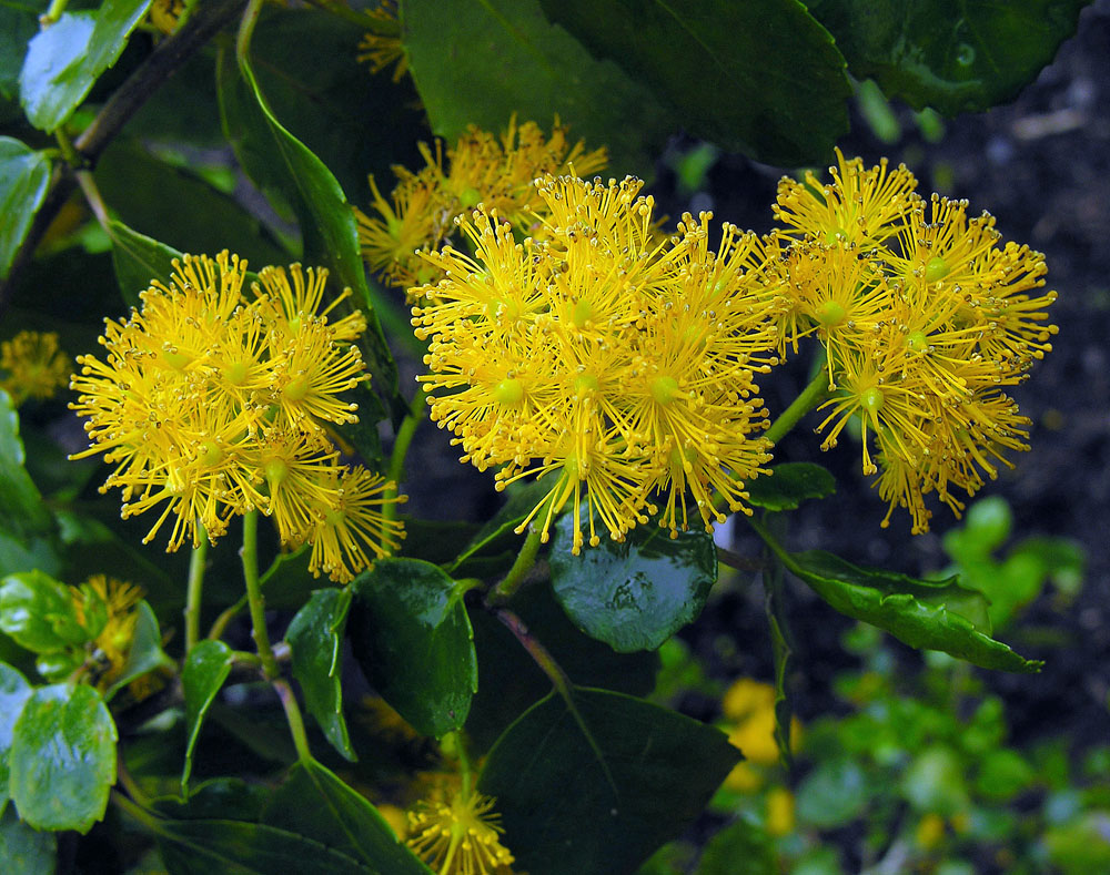 Corcolen is a tree of southern Chile, but here at the Van Dusen Gardens, Vancouver. In context at